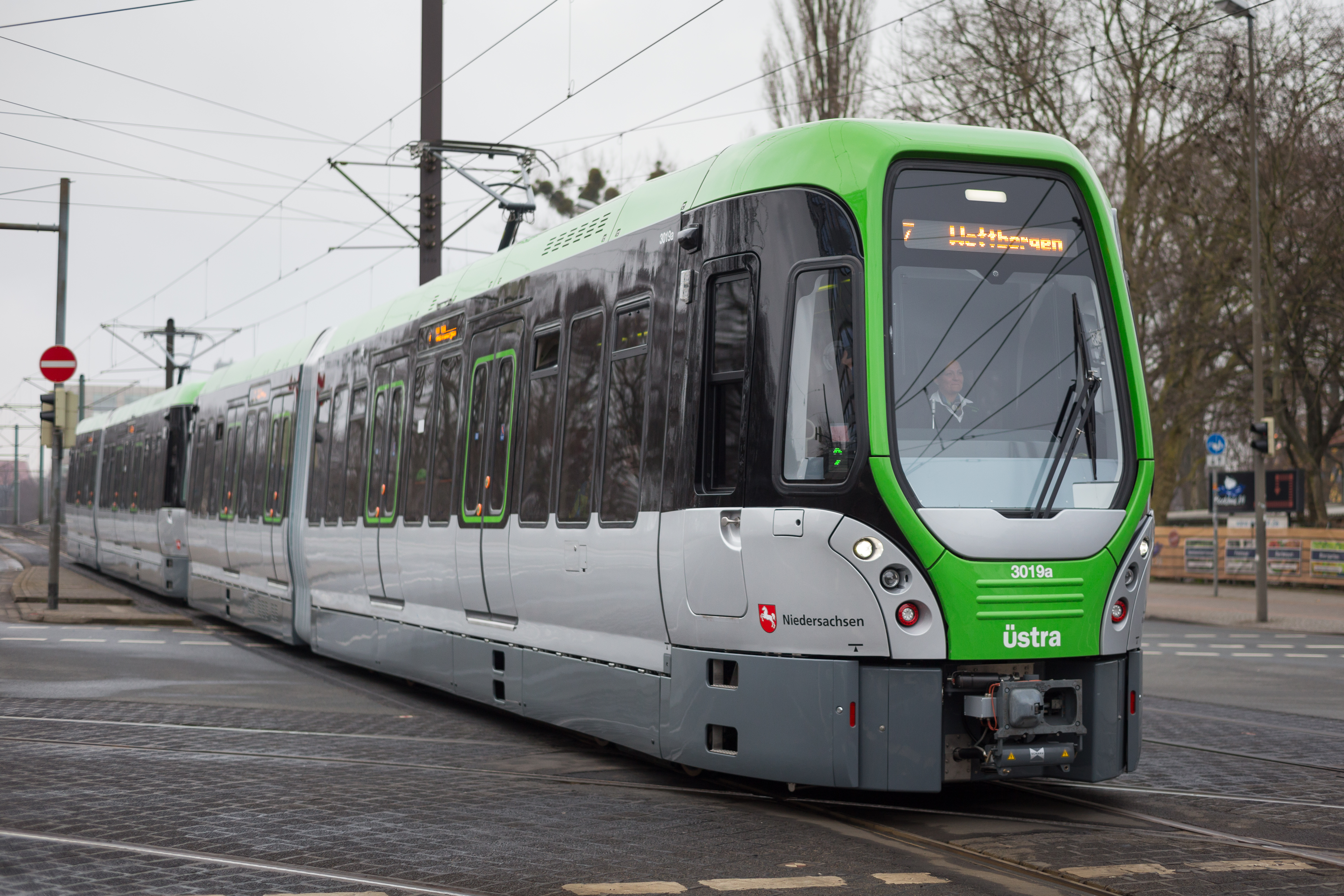 Tram train type TW 3000 of uestra transportation company during its first commercial service on March 15, 2015. The image shows the train while approaching "Allerweg" stop located in Linden-Sued district of Hannover, Germany.